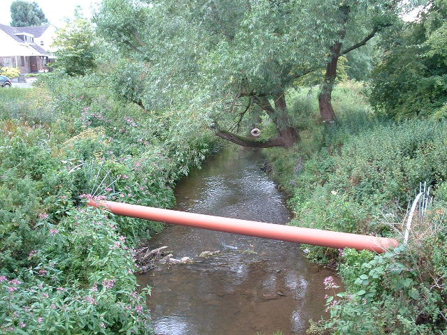 River Frome. From bridge at Frampton Cotterell - looking SW from the NE corner of the square.